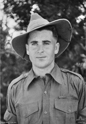 Portrait of Leslie Thomas Starcevich VC, an Australian recipient of the Victoria Cross during the Second World War.